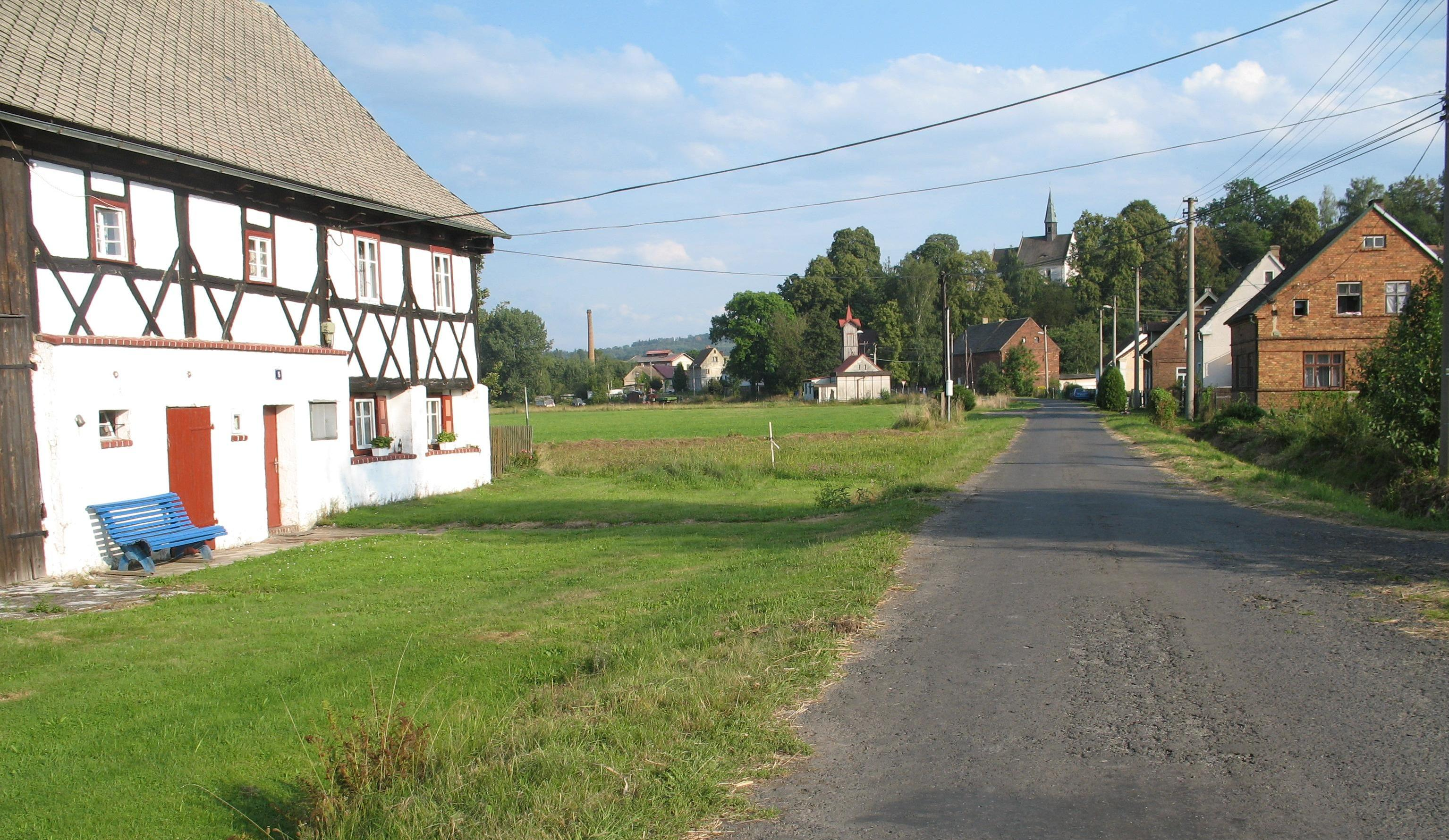 Village of Ves in Northern Bohemia